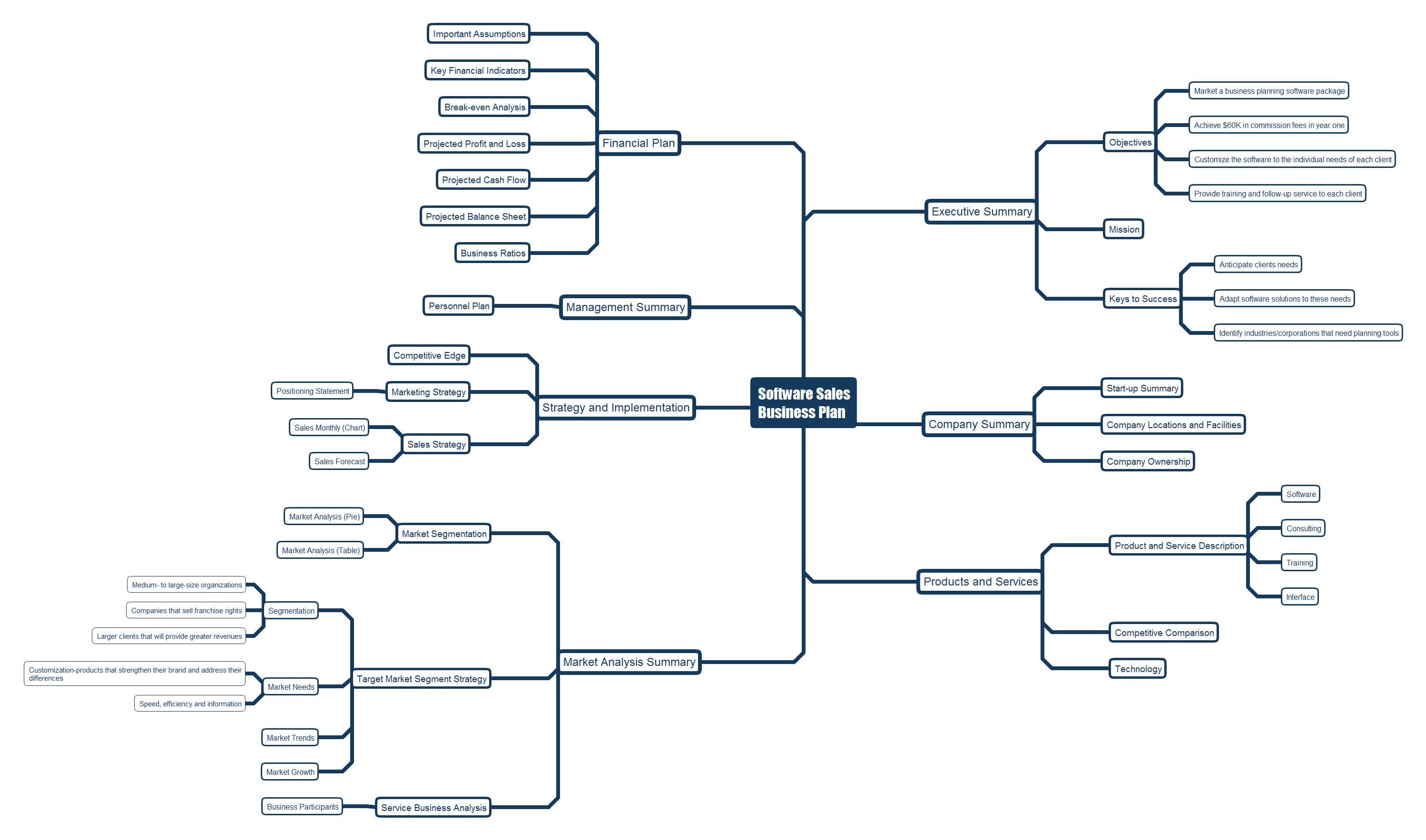 business plan map